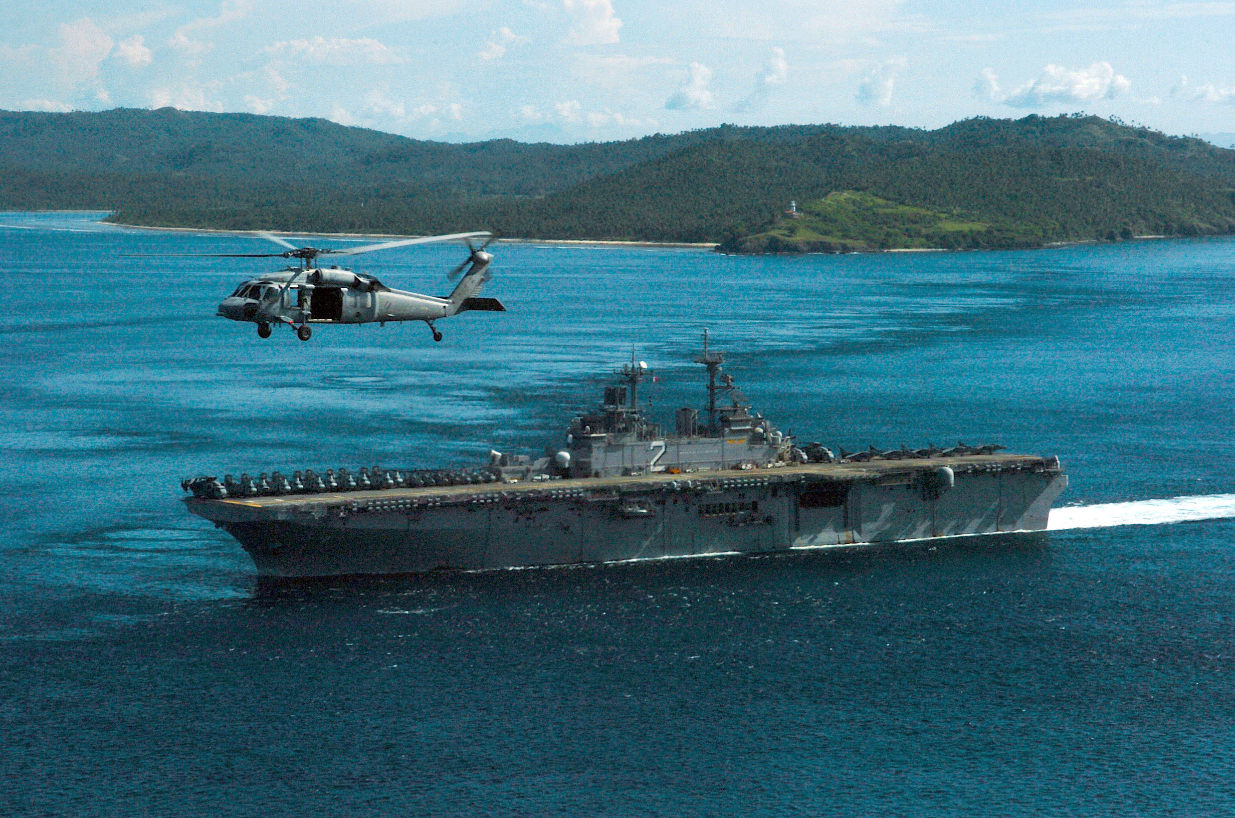 Pacific Ocean (Nov. 4, 2006) - With a MH-60S Seahawk assigned to the “Island Knights” of Helicopter Sea Combat Squadron Two Five (HSC-25) flying as a channel guard, USS Essex (LHD 2) passes the Capul Island Lighthouse as it transits through the San Bernardino Straits after completing a port visit to Subic Bay, Philippines. Essex and 31st MEU were in the Philippines to participate in bilateral exercises, Exercise Talon Vision and Amphibious Landing Exercise (PHIBLEX 07), with the Armed Forces of the Philippines (AFR). U.S. Navy photo by Mass Communication Specialist 1st Class Michael D. Kennedy (RELEASED)